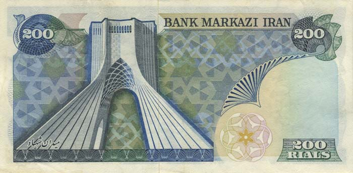 Banknote of second Pahlavi - 200 rials (rear) banknote of central bank of Iran.